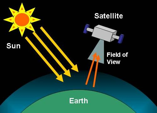 This depicts a satellite observing backscattered solar radiance in the nadir viewing geometry. The radiance (or light) is reflected off the earth and the earth’s atmosphere into the field of view of the satellite.